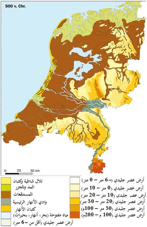 Palaeography of the Netherlands 500 BC, with a color code in Arabic